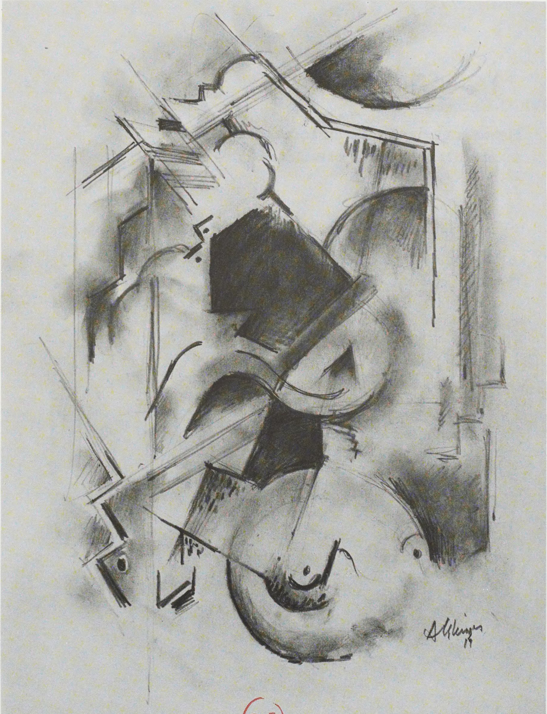 Albert Gleizes, 1914-15, Portrait de Florent Schmitt (Le Pianiste), pastel, 36 x 27 cm (black and white photographic reproduction)